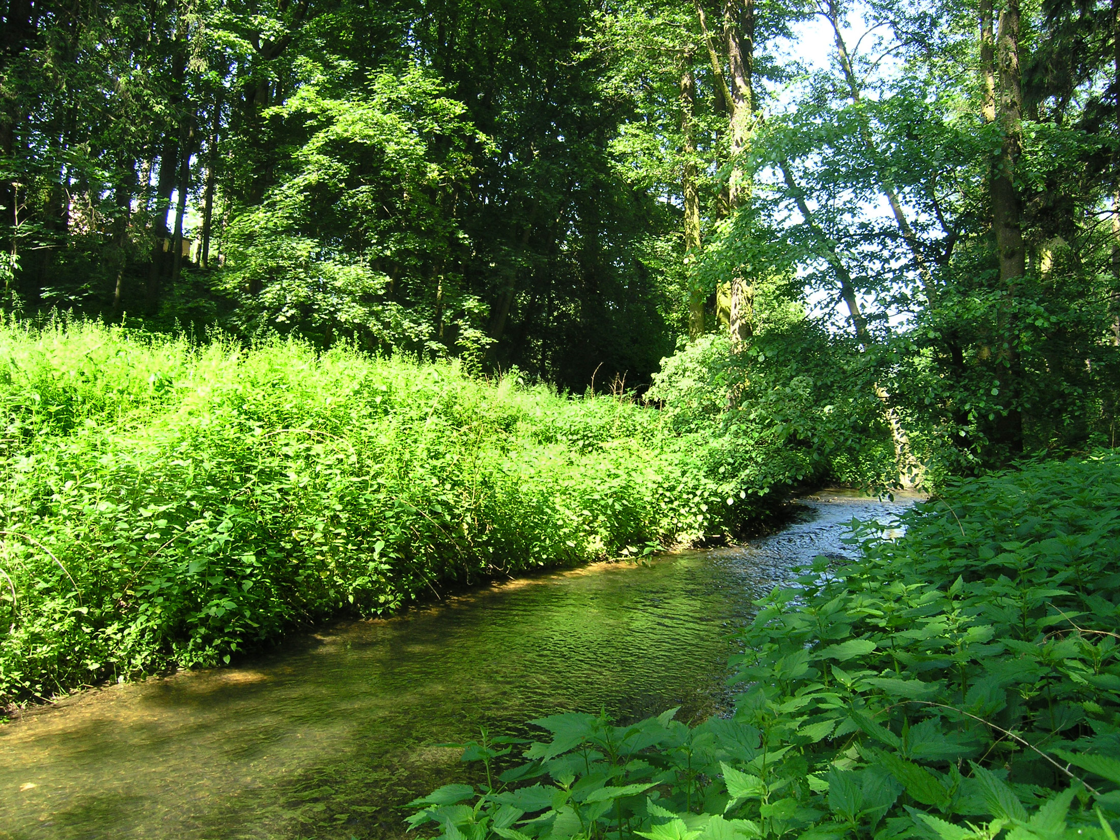 Botič pond in the natural park Botič-Milíčov in Křeslice, Prague